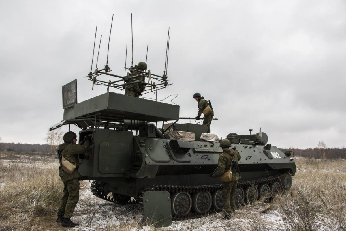 R-330B